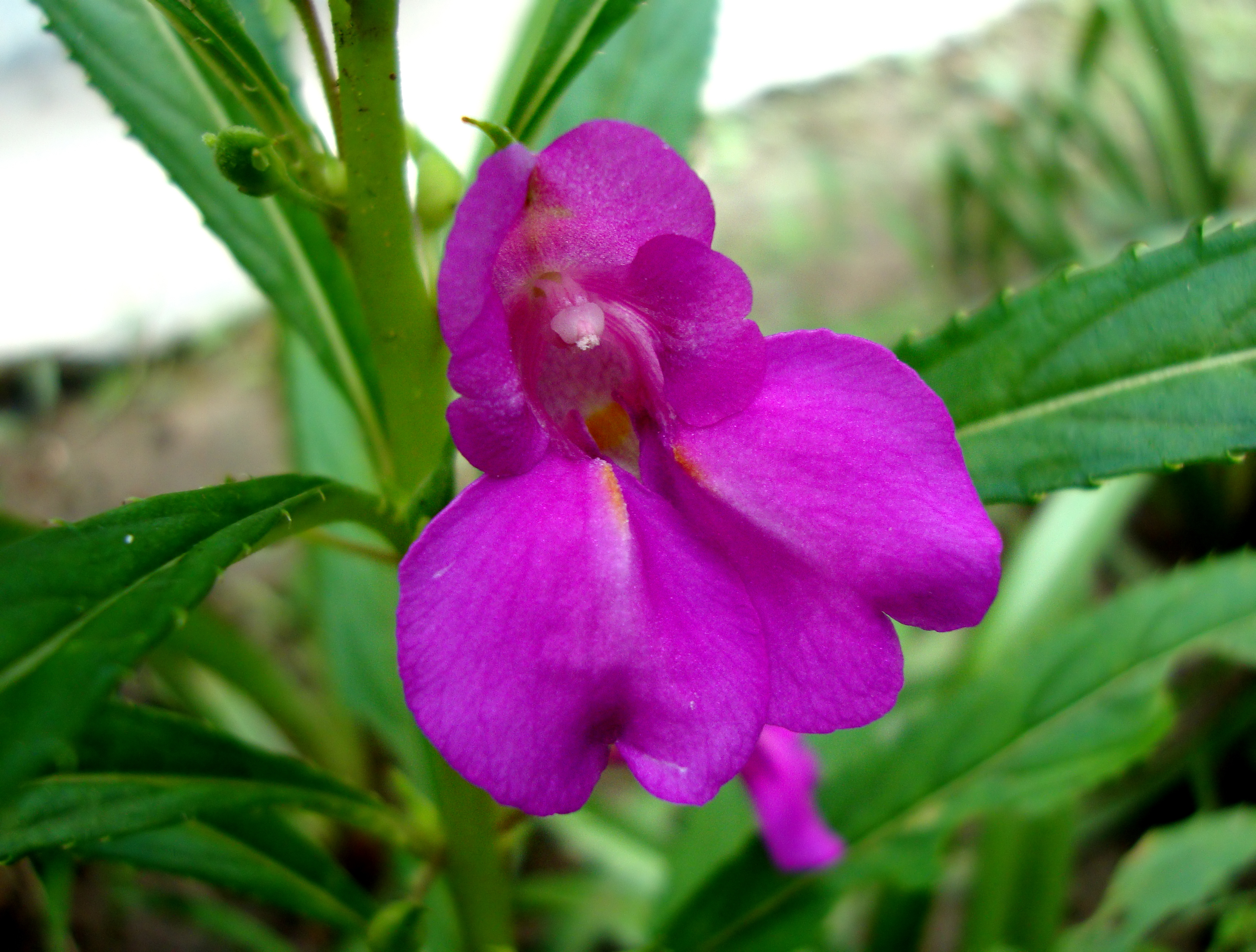 Impatiens balsamina flower.